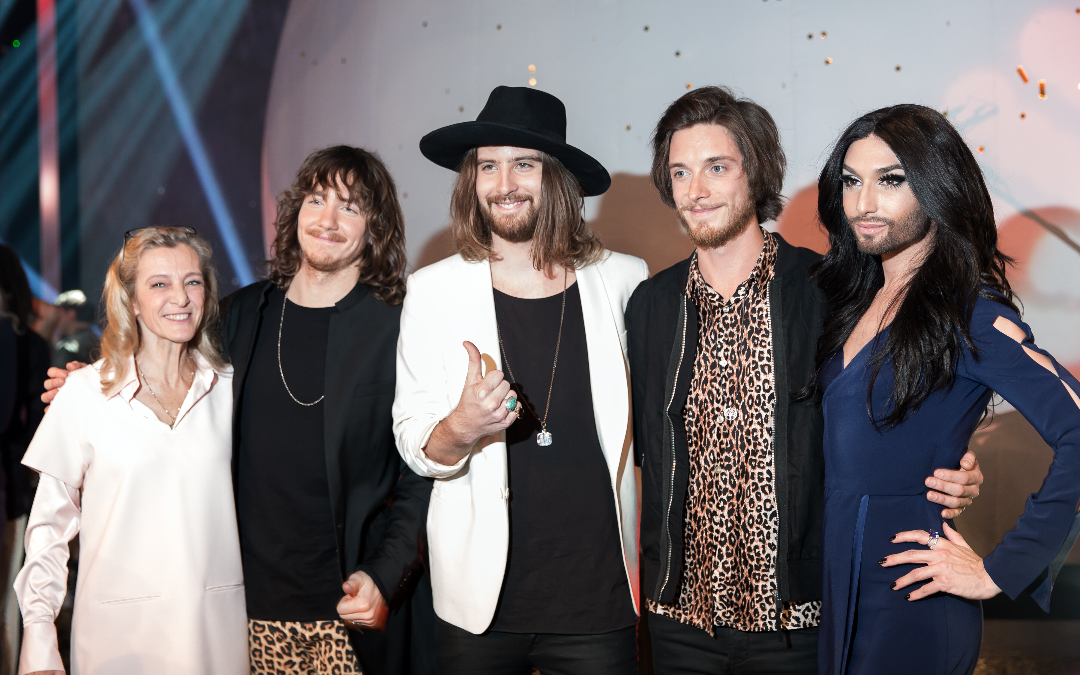 The Makemakes with Conchita Wurst and Kathrin Zechner after the final show of the selection of the Austrian participant for the Eurovision Song Contest 2015; ORF center, Vienna,Austria.